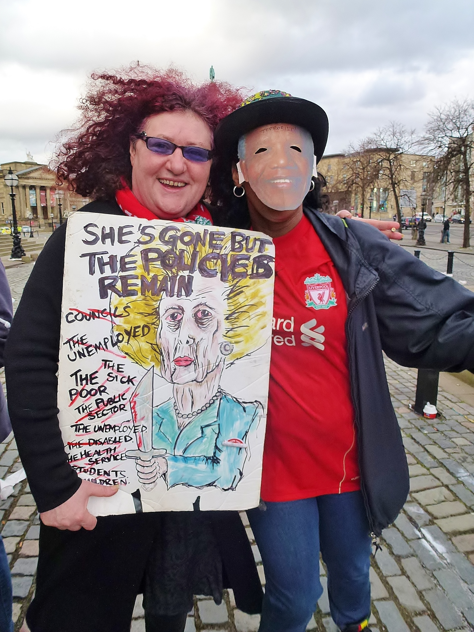 Demonstration in Liverpool at the same time as Thatcher's funeral